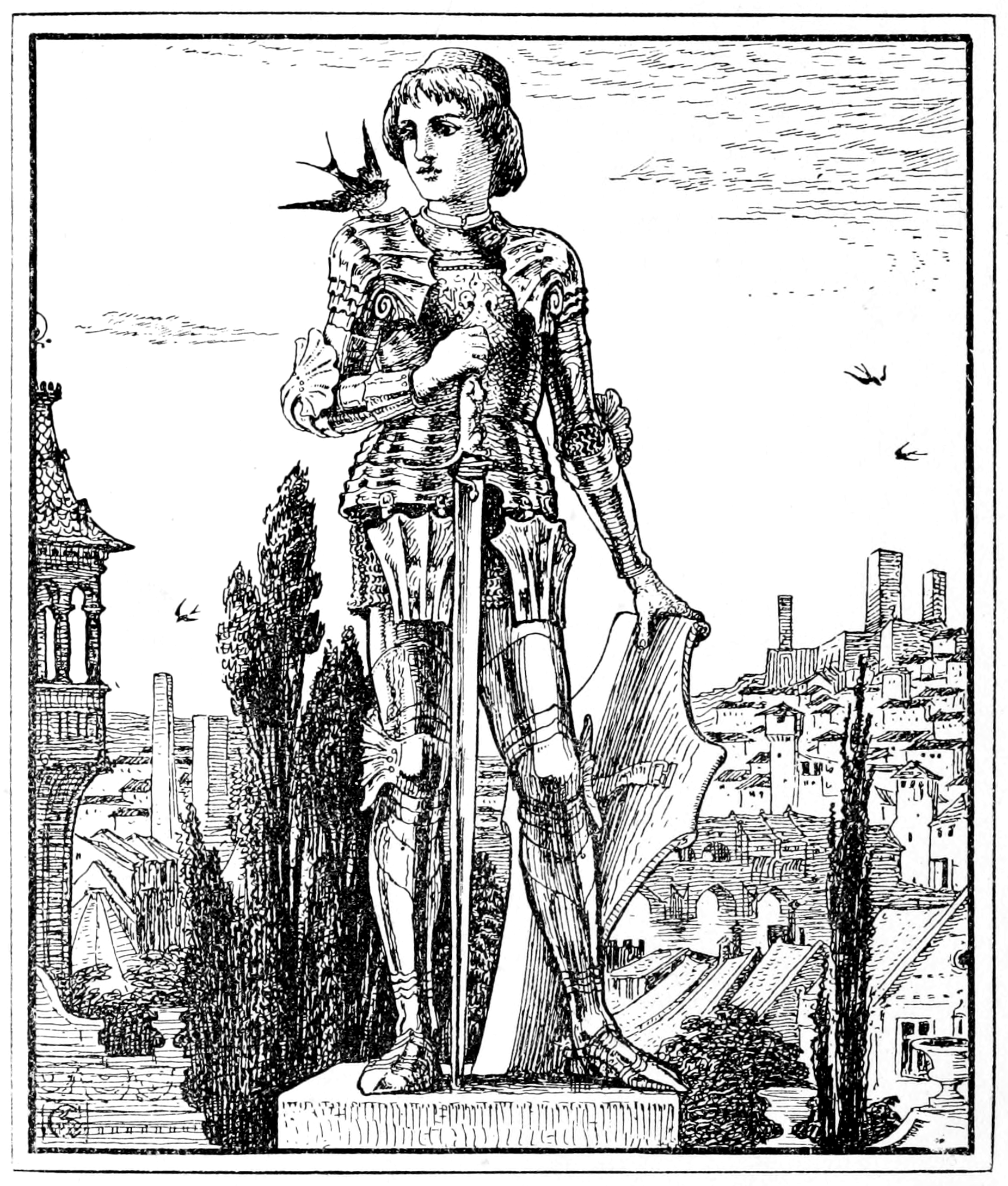 plate illustrating a story "The Happy Prince" in Wilde's The Happy Prince and Other Tales. London: Nutt. 1st ed. Conversion: jp2 to png; greyscale; black and white point levels.